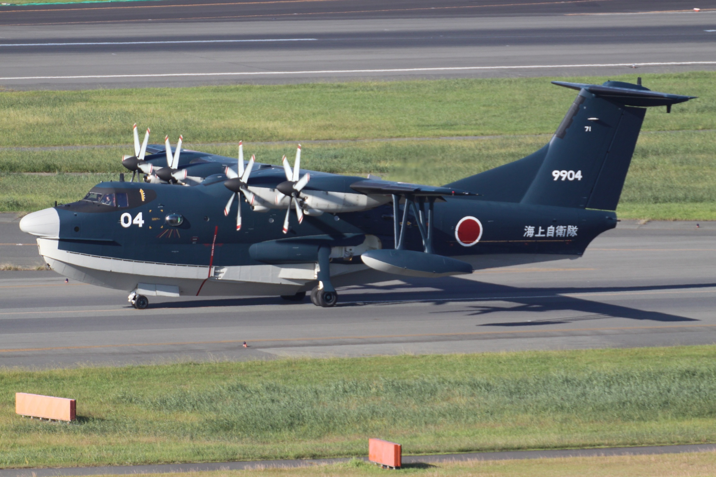 At Tokyo Haneda International